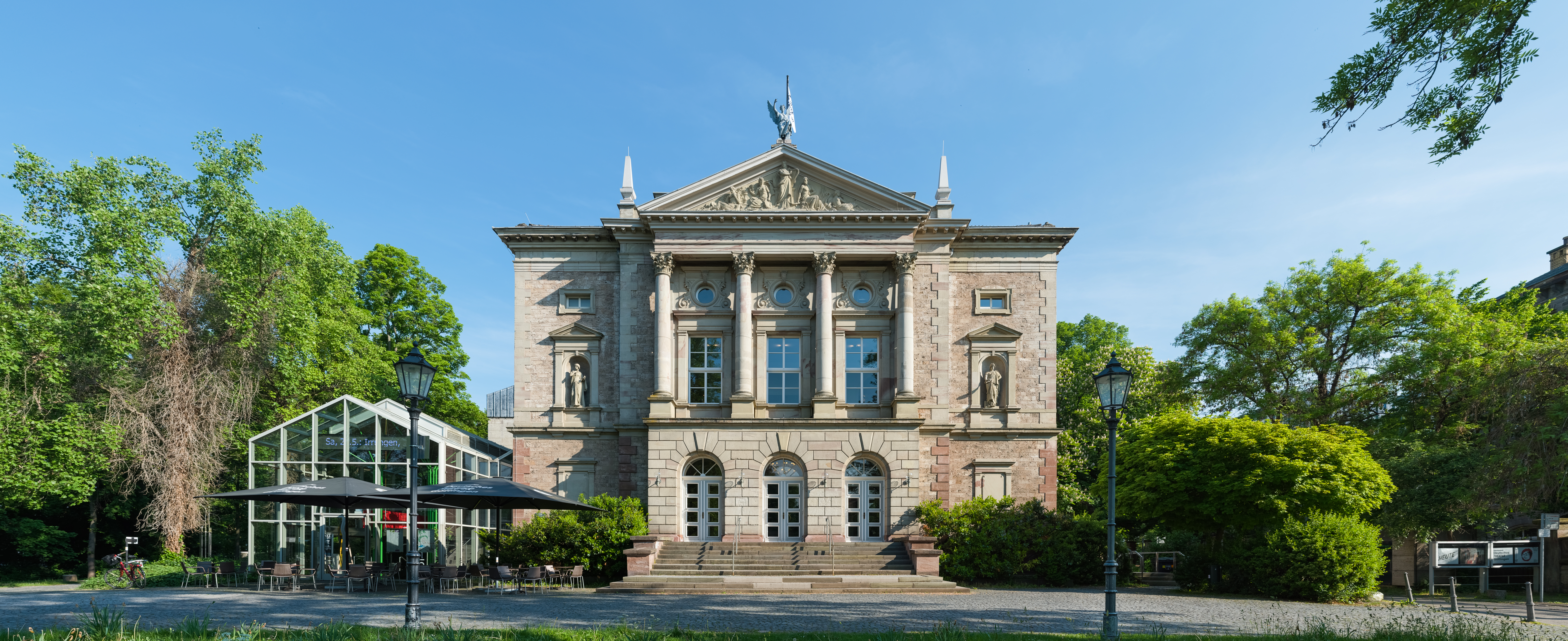 Deutsches Theater (German theater), Göttingen, Germany.